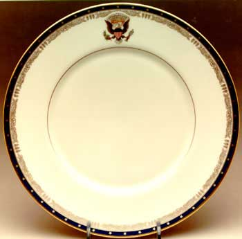 The Franklin D. Roosevelt White House china service, made by Lenox, Inc., Trenton, New Jersey, 1934.